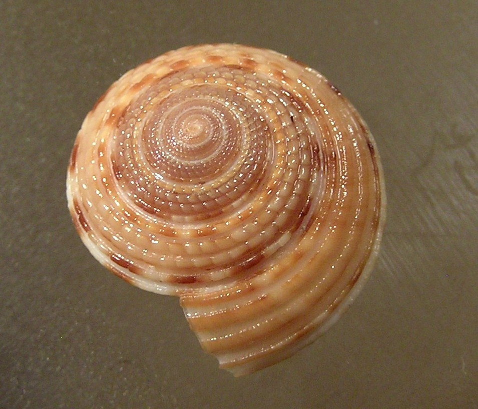 Architectonica (Maxima-group) consobrina, Bieler, 1993; a sundial from the family Architectonicidae; Philippines